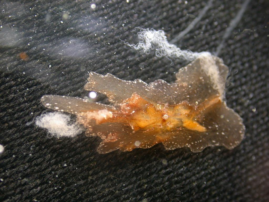 Coeloplana_willeyi(Coeloplanidae,Platyctenida,Tentaculata,Ctenophora) Japanese name:Murasakikurumanamako Date;2007,05,18;Tenjinzaki,Tanabe city, Wakayama prefecture, Japan Author;Keisotyo